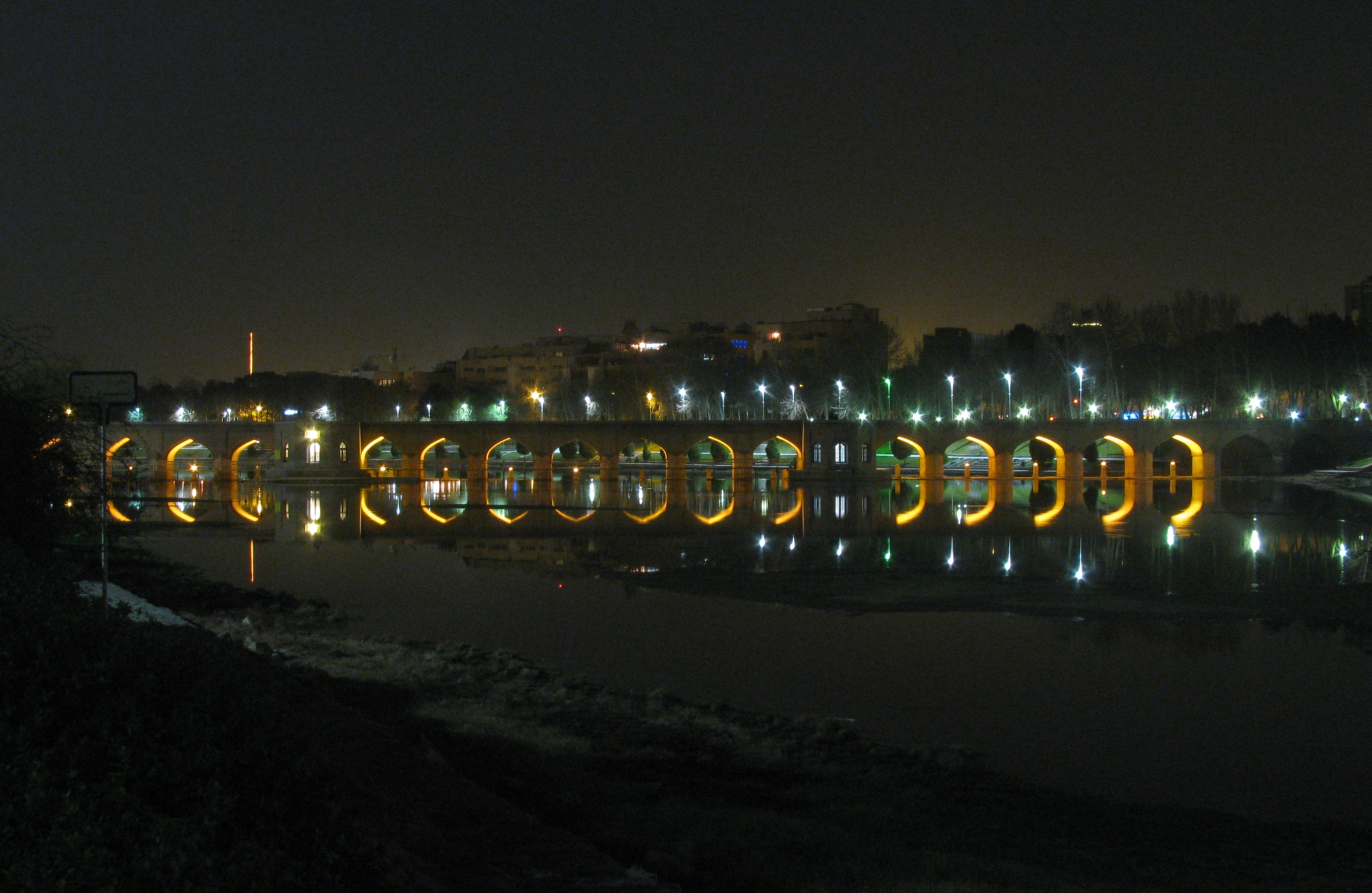 Joui (Choobi) Bridge in Isfahan, at night.